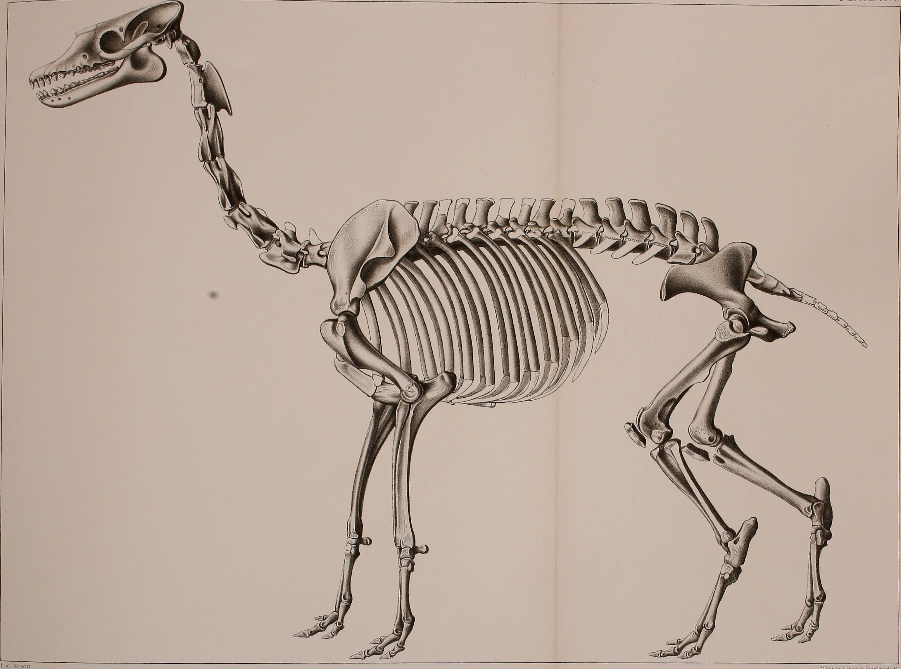 Title: Reports of the Princeton University Expeditions to Patagonia, 1896-1899. J. B. Hatcher in charge Year: 1901 (1900s) Authors: Princeton University Expeditions to Patagonia, 1896-1899 Hatcher, J. B. (John Bell), 1861-1904 Scott, William Berryman, 1858-1947 Subjects: Scientific expeditions Birds Zoology Paleontology Botany Publisher: Princeton, The University Text Appearing Before Image: 3ruce Horsfall del Werner 6. Winter, ri-anktori vM THOAjrHERIUM PATAGONIAN EXPEDITIONS: PALEONTOLOGY. EXPLANATION OF PLATE XVL PAGE Theosodon garrettorum, type : Restoration of skeleton X about J^. Almostall of the bones are from the type-specimen, No. 15,164; the vertebraeof the neck and trunk appear to form an uninterrupted series of 19, butthis is somewhat uncertain. Missing details of the vertebrae have beensupplied from T. lallemanti and, for this reason, the neural spines of theposterior thoracic and lumbar regions have been made somewhat tooheavy 141 (vol. VII.) Patagonian Expeditk F.v, Iterson 1^ Patagonian Expeditions Vola^. Plate xa/i Text Appearing After Image: F V Iterson .v-;rrier5Wtnler, Frankforf-M Theosodon PATAGONIAN EXPEDITIONS: PALEONTOLOGY. EXPLANATION OF PLATE XVII. PAGE Fig. I. Theosodon garrettorum, type: Skull, from the right side, X a- (No. 15,164.) . . . . 113Fig. la. Skull, base view, X 2- (No. 15,- 164.)Fig. 16. Skull, top view, X h (No- 15.- 164.)Fig. 2. - . Stylohyal of right side, Xt- (No. 15.164.) 118 Fig. 3. Theosodon LYDEKKERi: Right upper milk-teeth, X t- (No. 15,717. mi first molar, with valley betweeninternal cusps partly closed.) . . . inFig. 3(3:. Left upper first molar, X l• (No. 15,717, with inner valley completely closed.) . 109 Fig. 4. Thesodon lallemanti : Right upper teeth of young animal, X h (No. 15,539. /^ last premolar, »«-last molar.) 145 Fig. 5. Theosodon garrettorum, type : First thoracic vertebra, from the right side, Xi- (No. 15,164.) . . 124 (vol. VII.) Patagonian Expeditions Vol.vil Plate xvii.